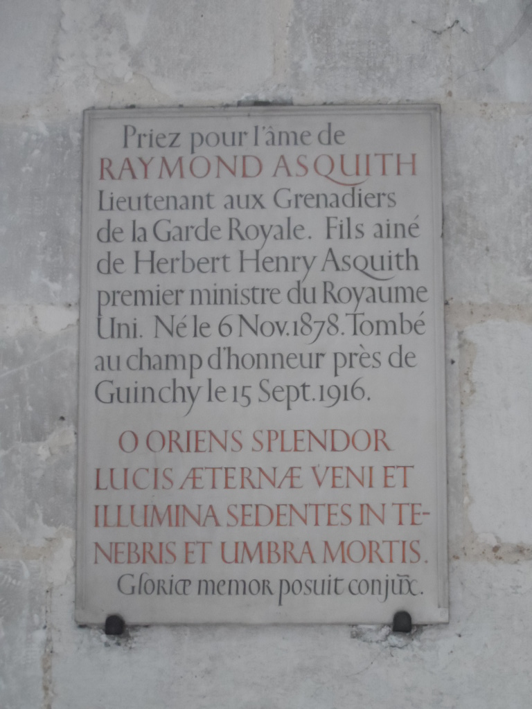 Memorial tablet to Raymond Asquith (1878-1916) in Amiens Cathedral, Amiens, France.